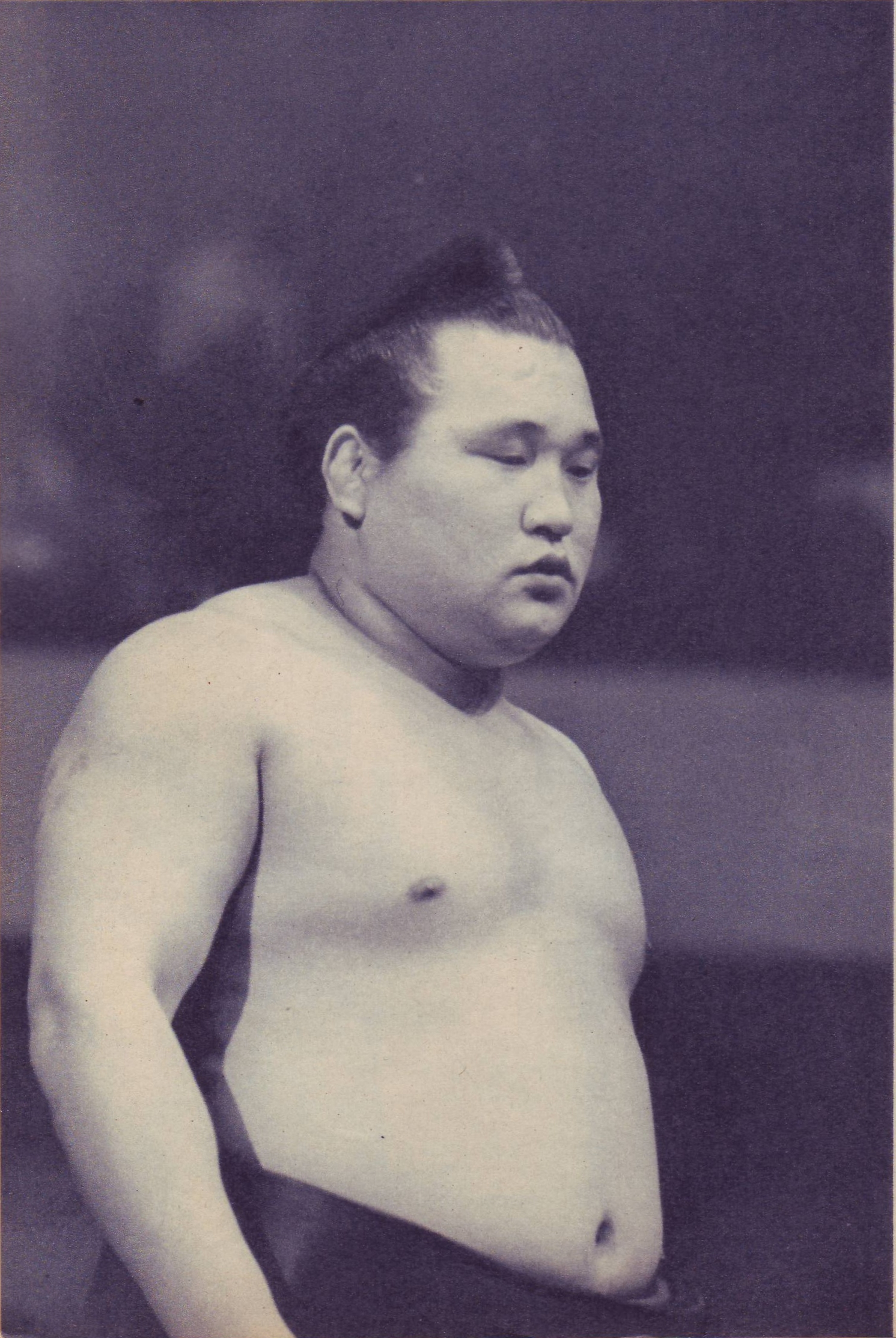 Iwakaze Kakutaro. taken in 1961.